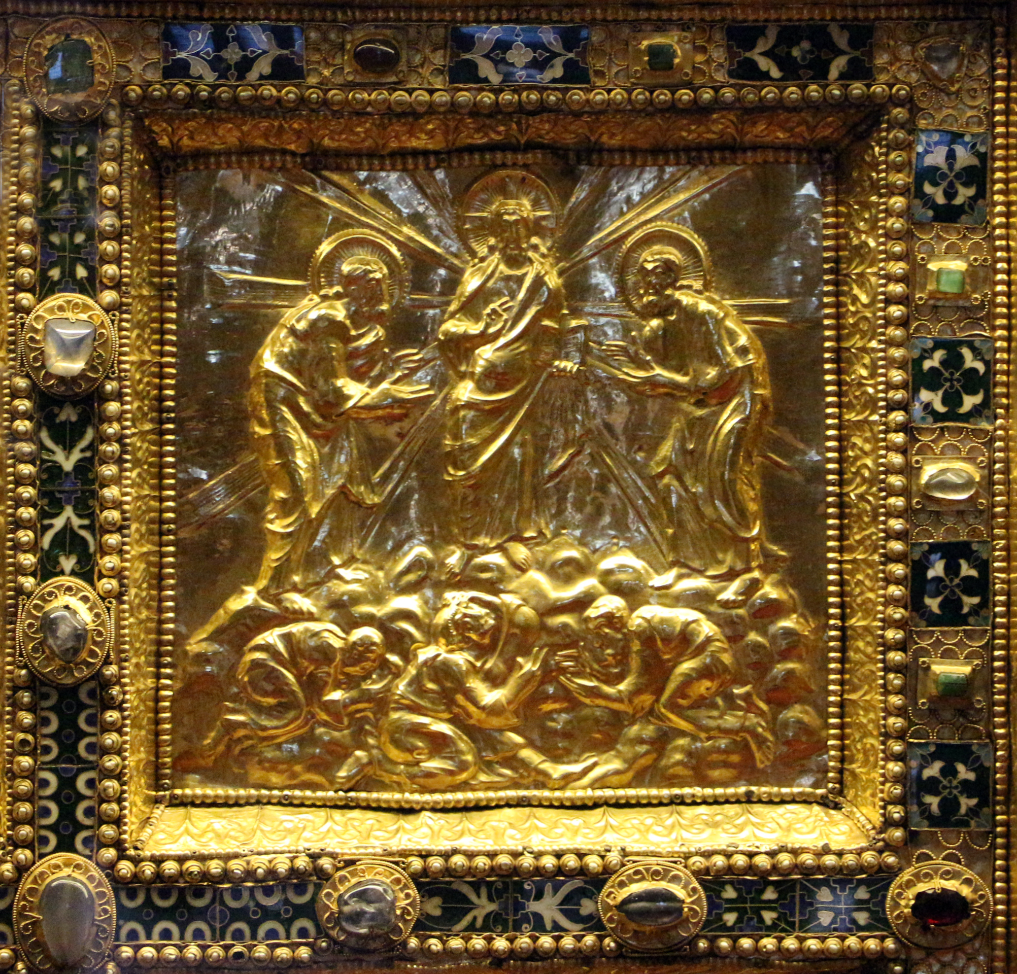 Sant'Ambrogio Altar